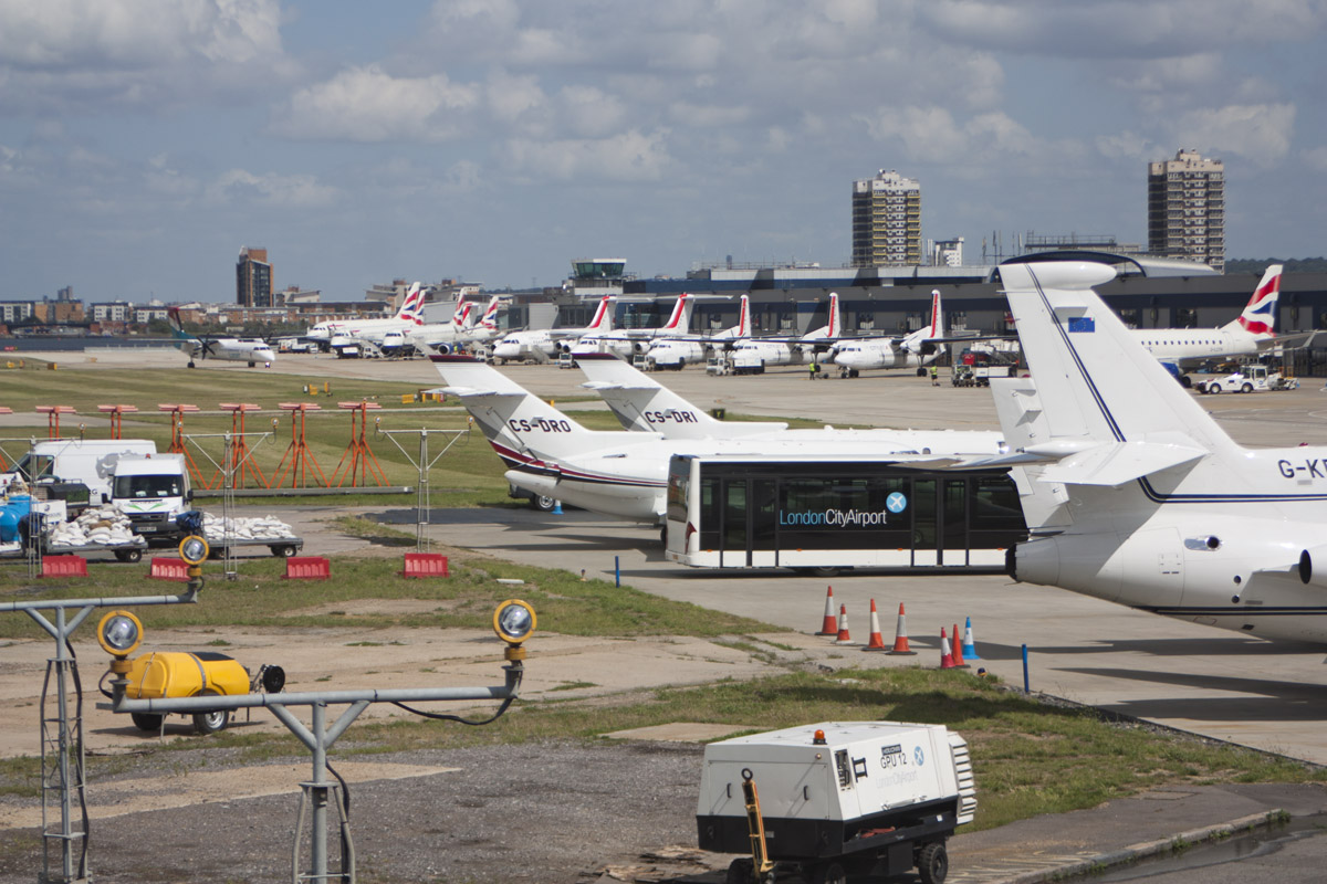 Various aircraft at LCY, shot taken from eastern side. 2011